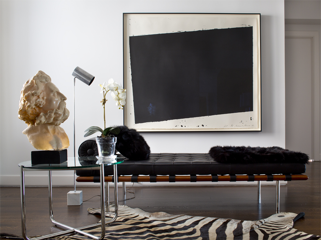 Michael Kors residence by Glenn Gissler